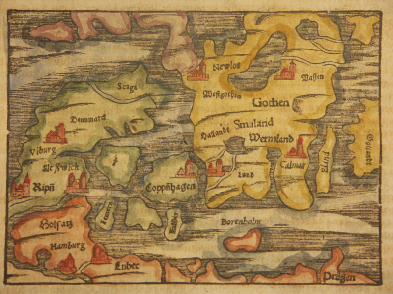 Münster's maps-- some examples from different editions (many with modern hand-coloring)